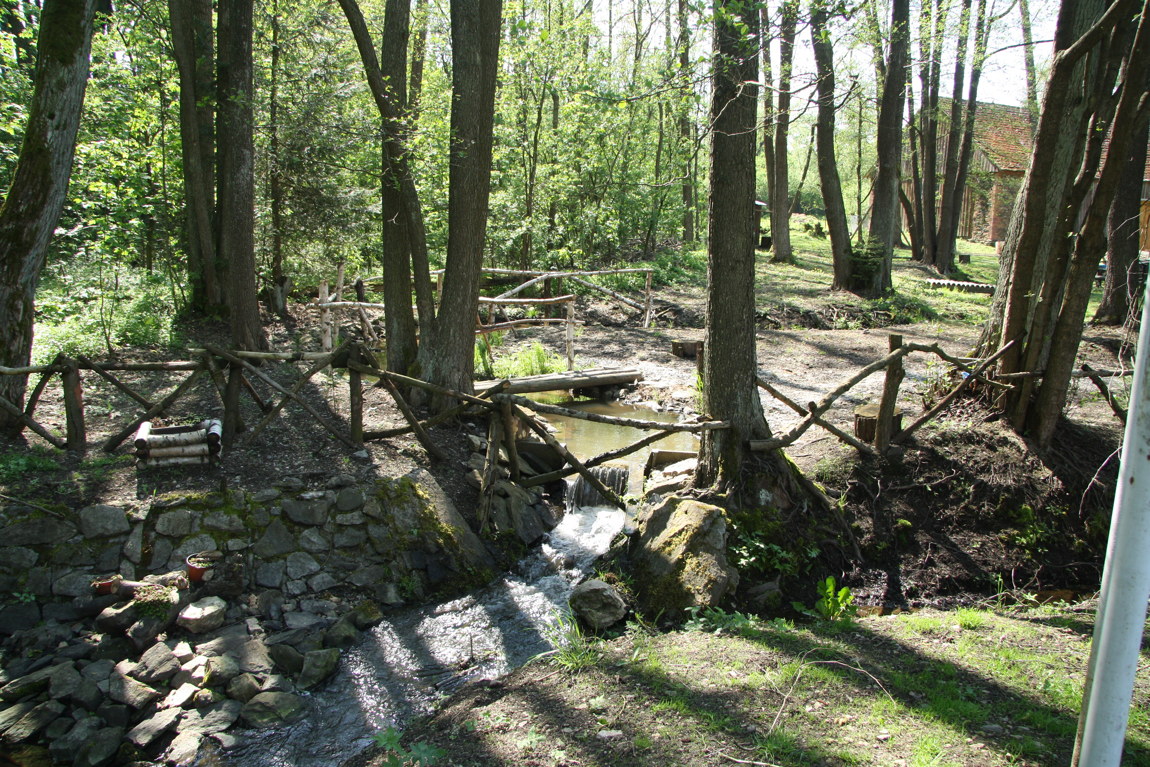 Dašovský potok in Dašovský mlýn in Dašov, Štěměchy, Třebíč District.